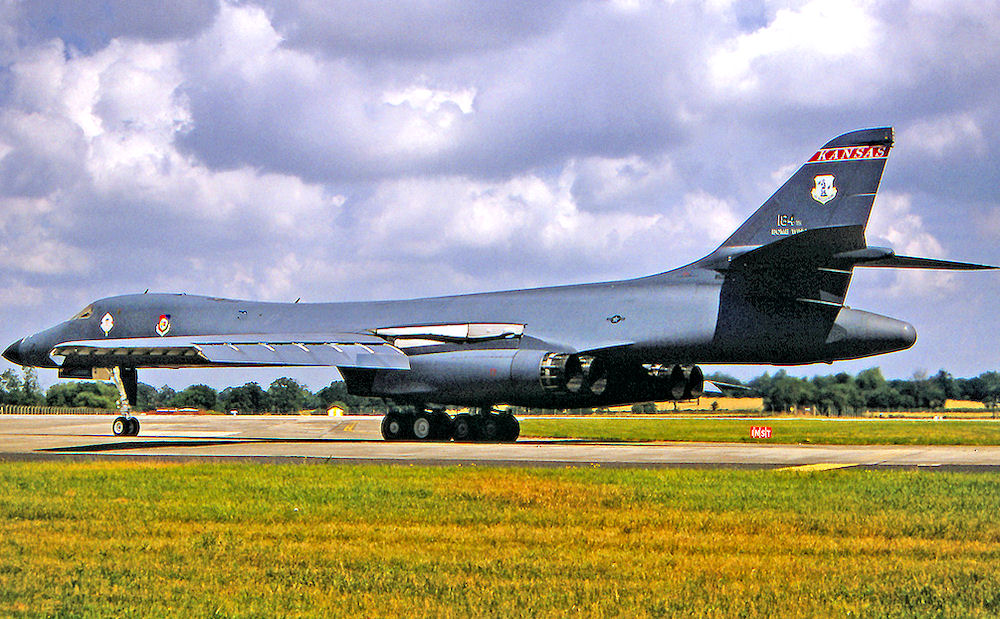 127th Bomb Squadron Rockwell B-1B Lancer Lot IV 85-0064 Aircraft was scheduled to go to AMARC Sep 2003, but was not sent.